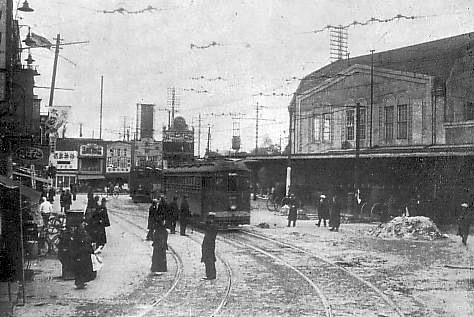 Shibuya Station in Pre-war Showa era